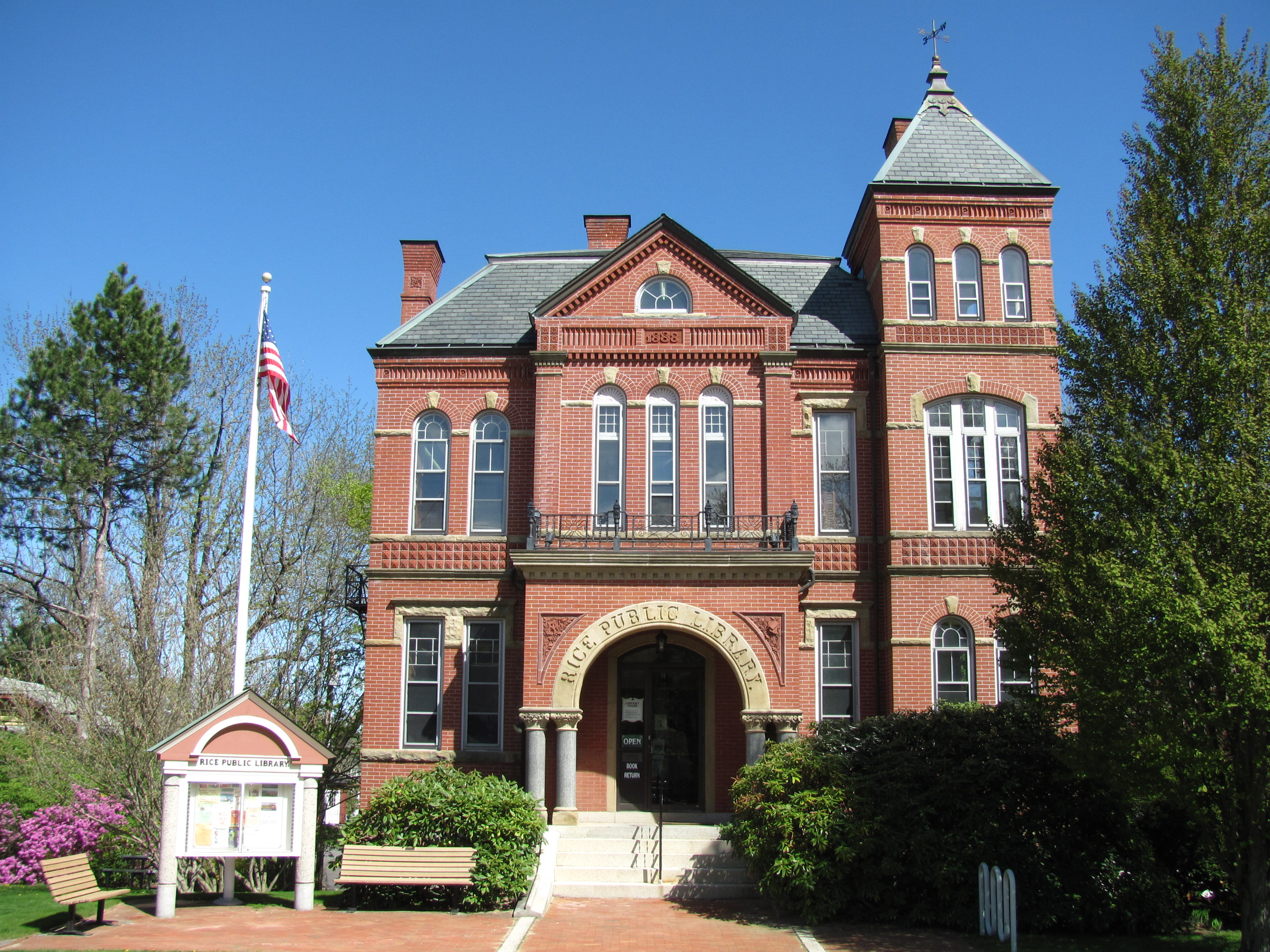 Rice Memorial Library, Kittery Maine